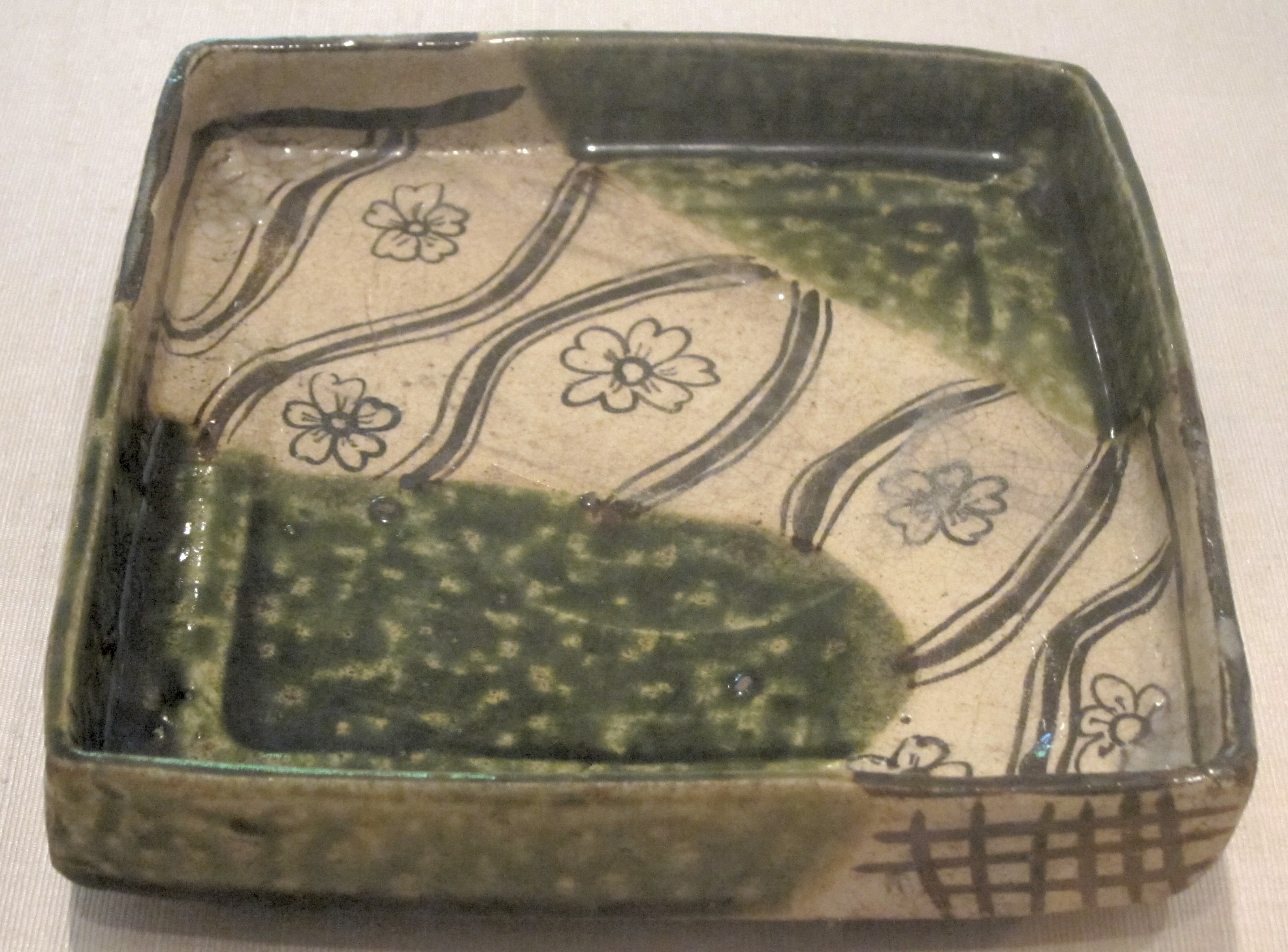 Tray from Japan, Momoyama period, late 16th century, oribe glazed stoneware, Honolulu Academy of Arts